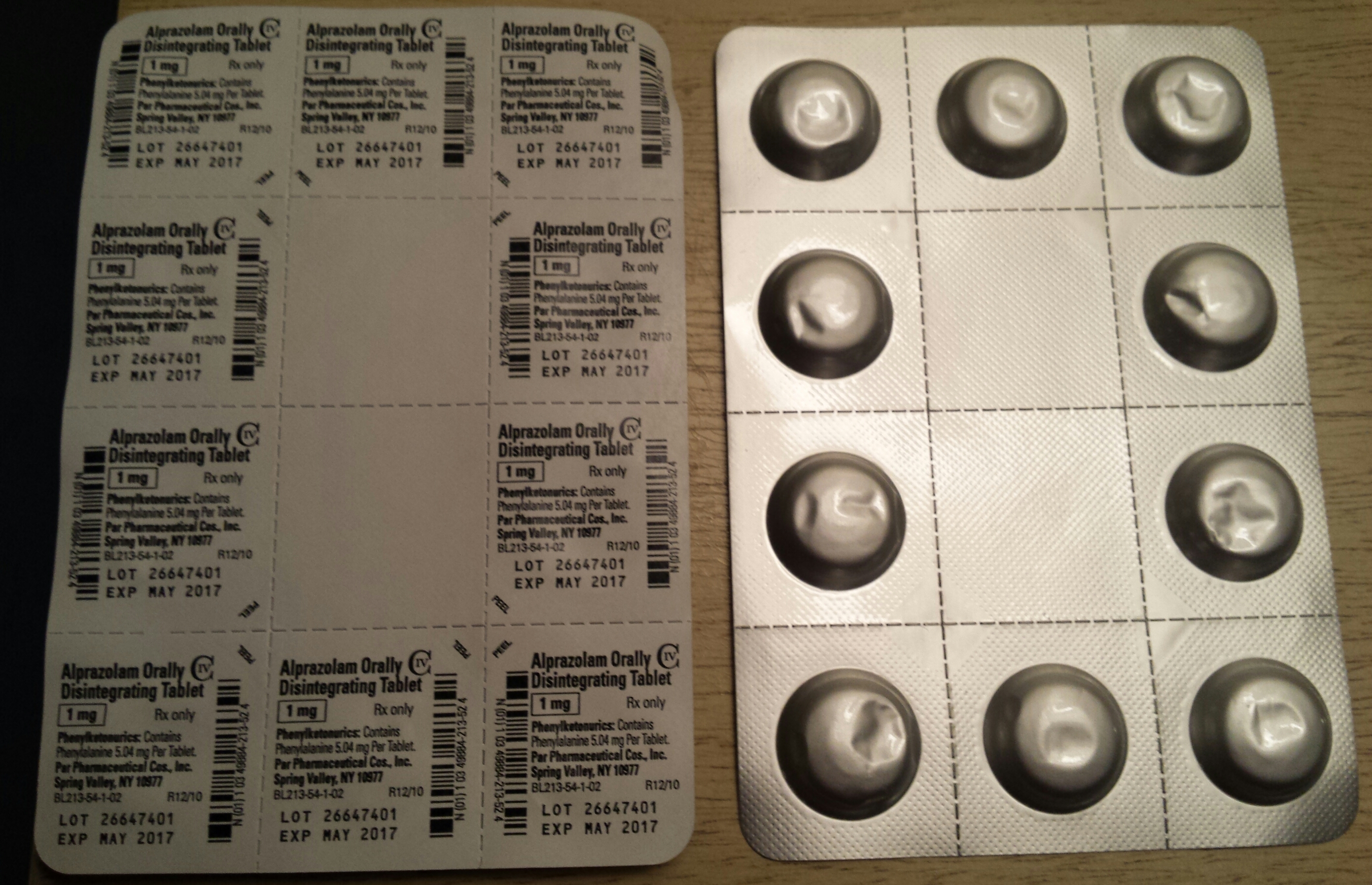 alprazolam orally disintegrating tablets (ODT) 1mg, 1 individual blister Packaging assembly unit. containing a total of 10 blisters / blister pack. Trade Name is Niravam.